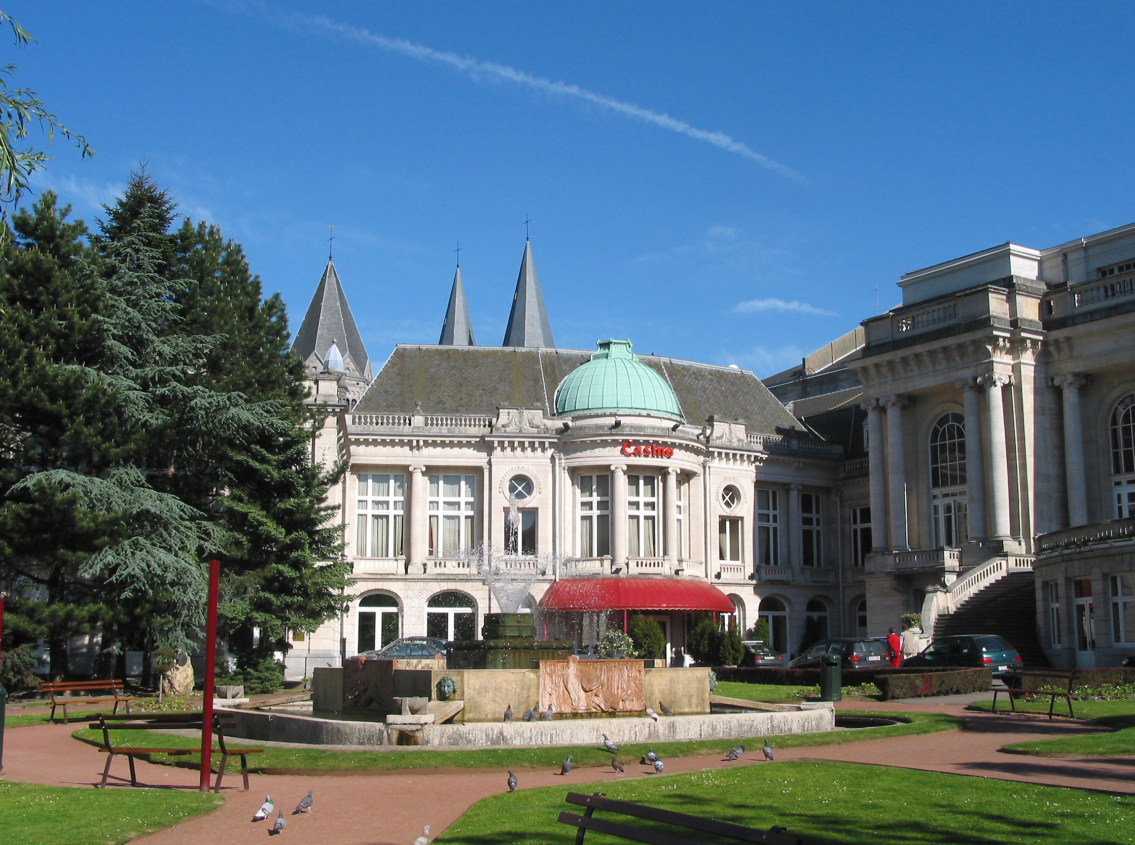 Spa, Belgium, theCasino.